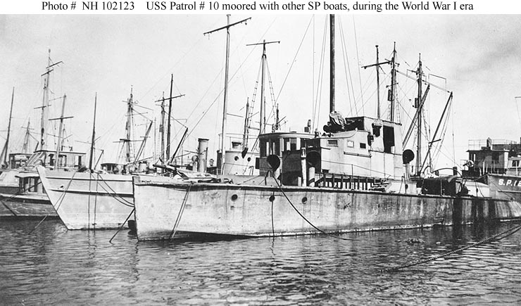 United States Navy patrol vessel USS Patrol No. 20 (SP-85) during World War I